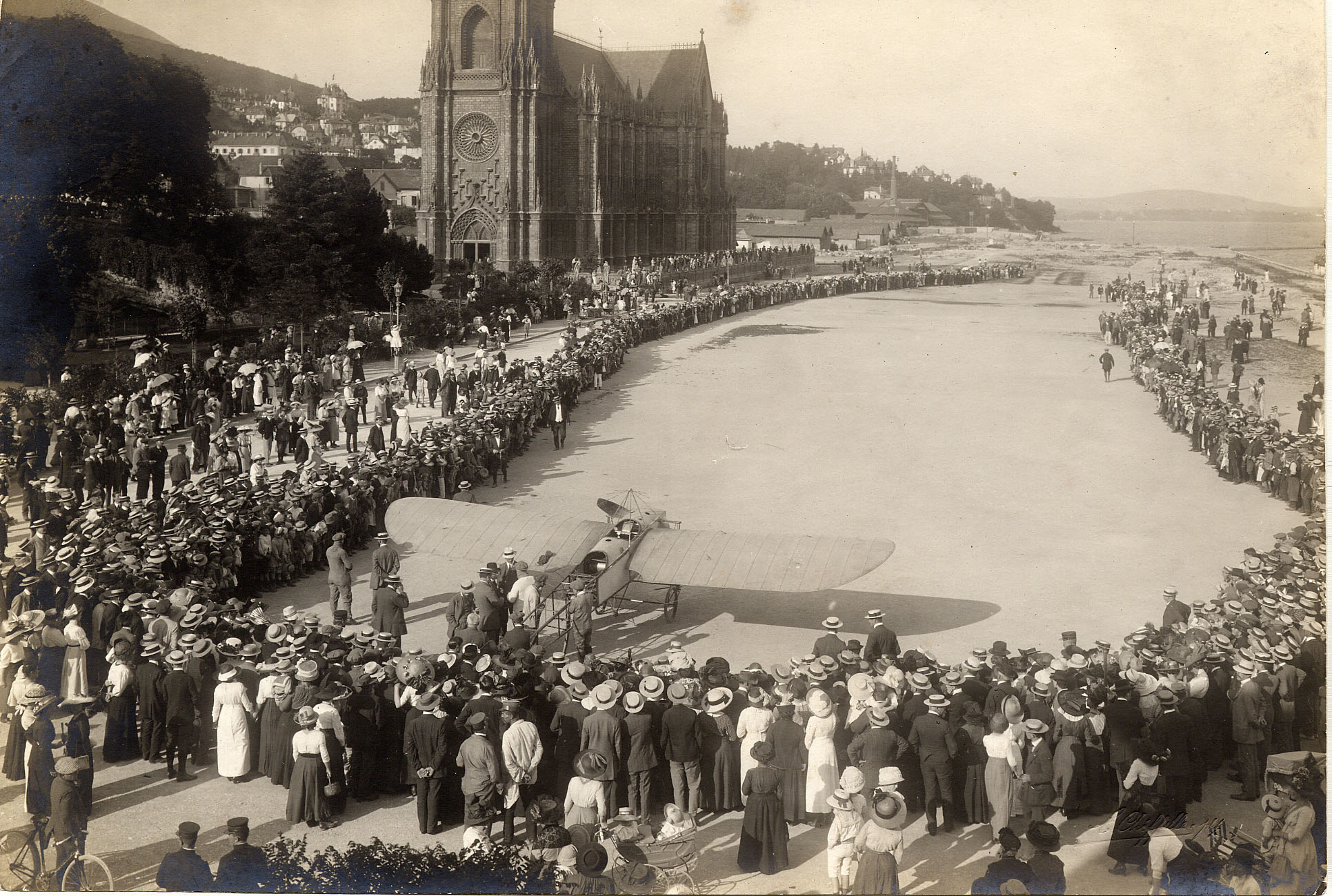 Oscar Bider's plane in Neuchâtel in front of Notre-Dame Catholic Church on the 1st of August 1913